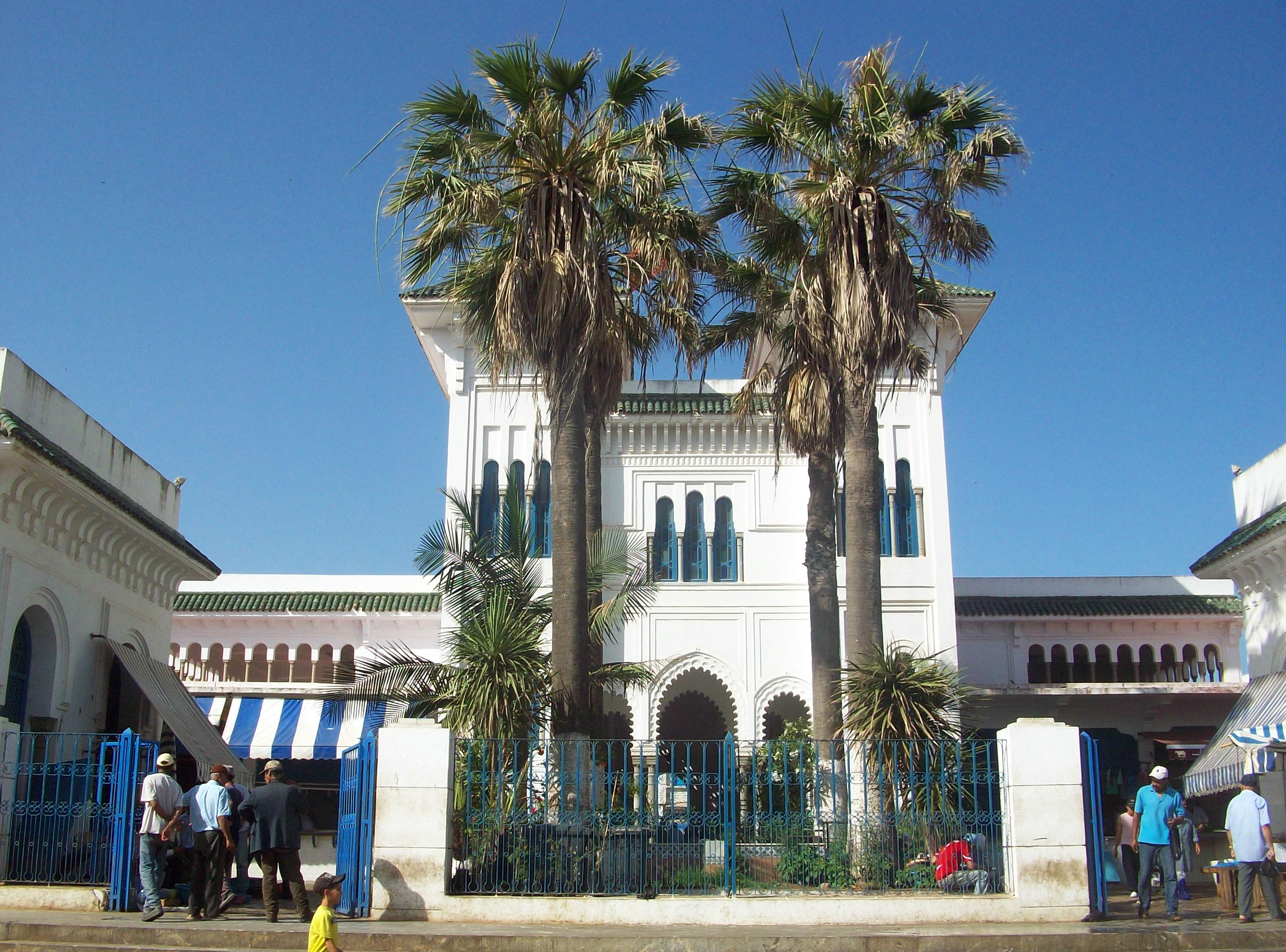 Souq ( central market; marché centrale), Larache, Morocco